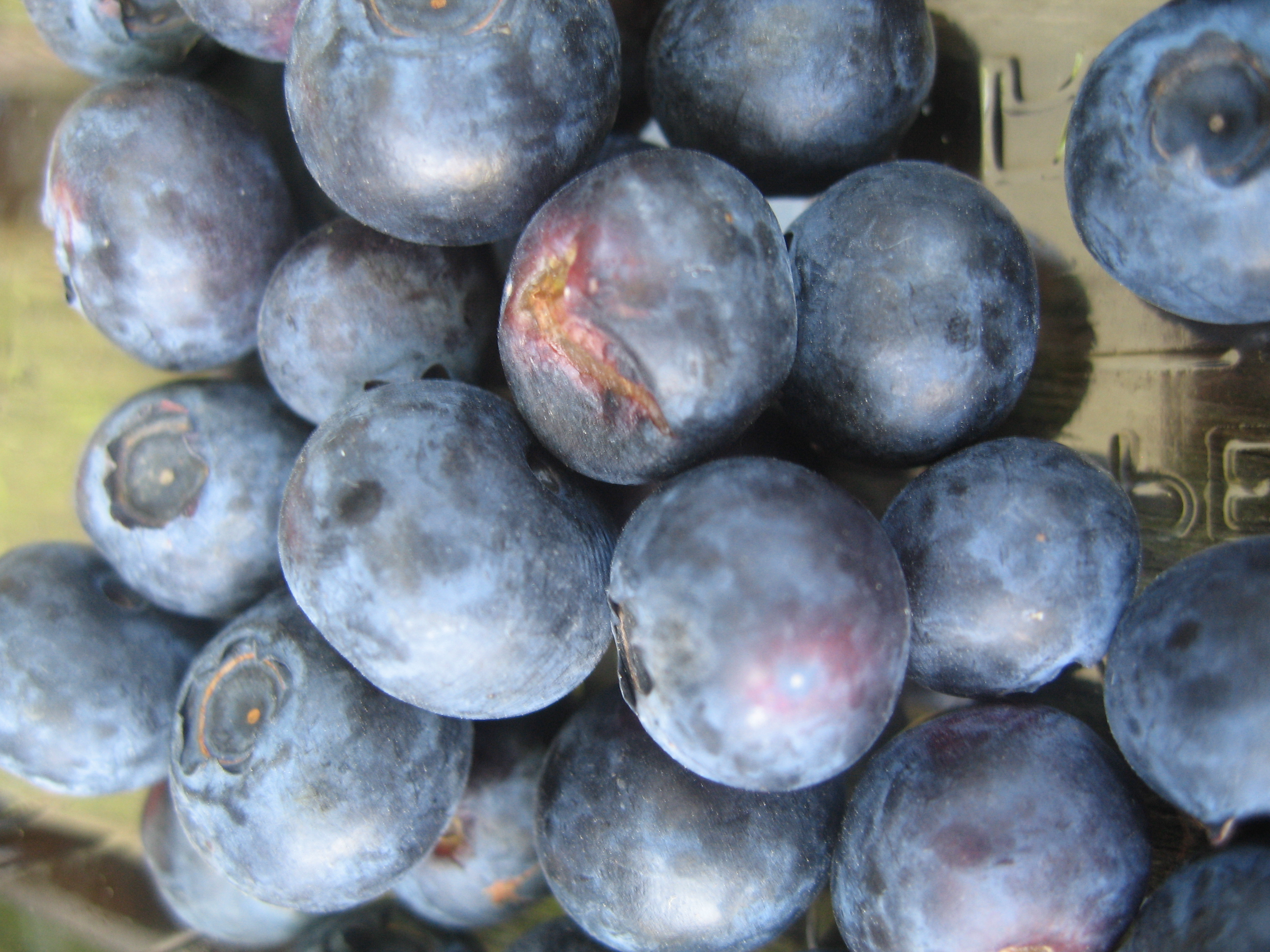 Blaubeeren, Blueberries, own work, 7-2006 public domain